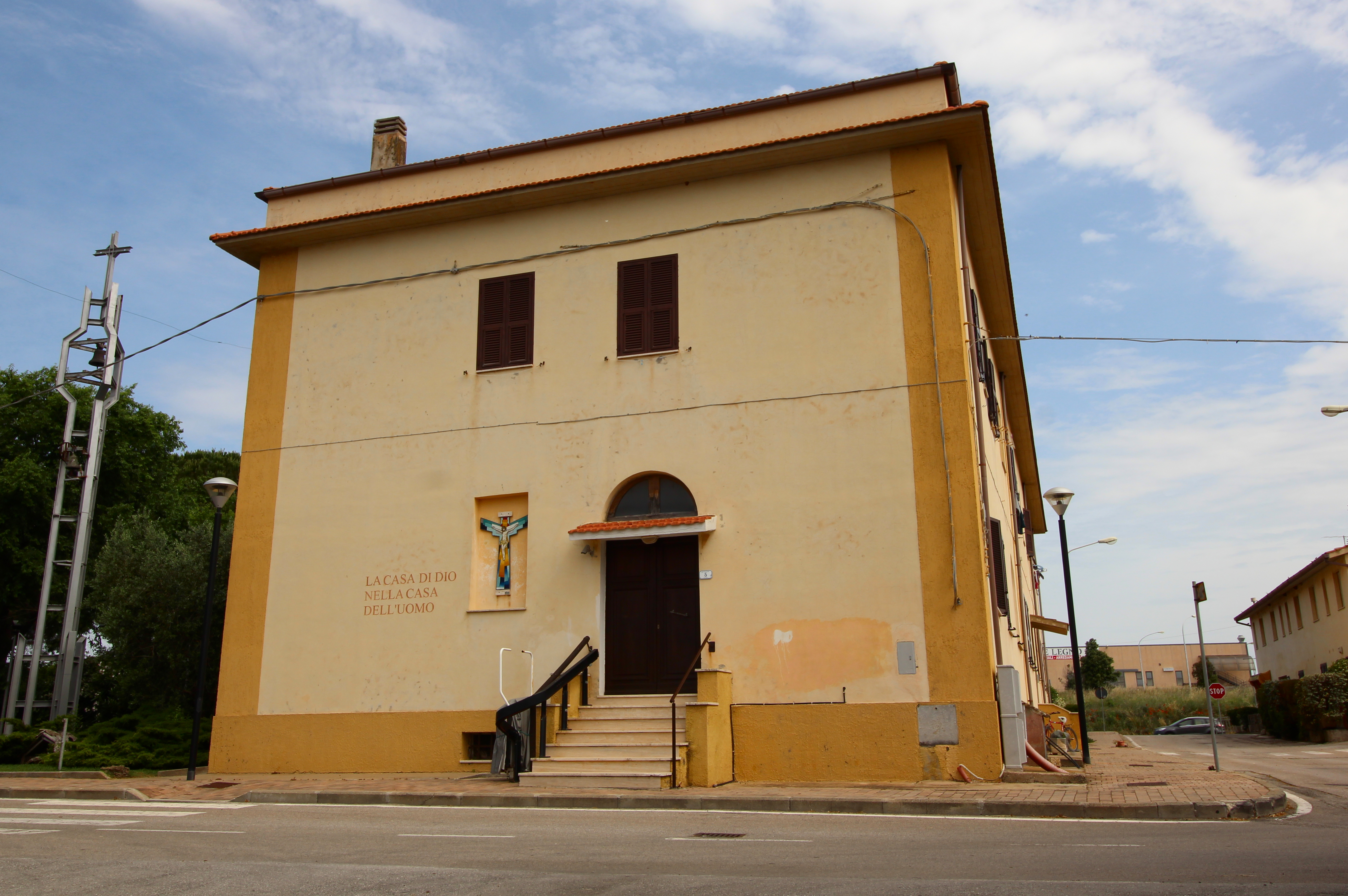 Church Sacro Cuore di Gesù, La Torba, hamlet of Capalbio, Province of Grosseto, Tuscany, Italy